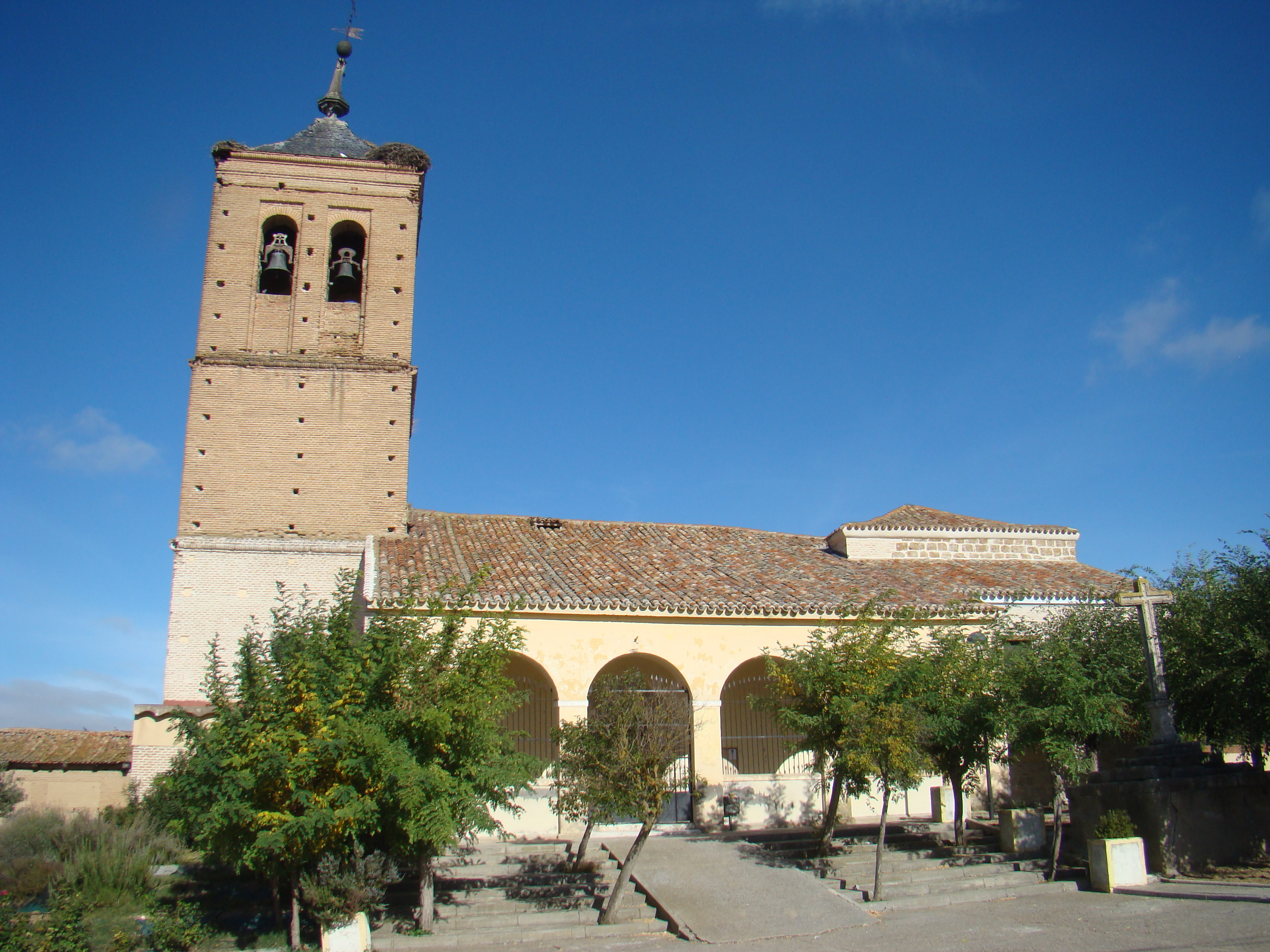 The church of Our Lady of the Visitation is a Catholic temple located in the town of Villanueva de Duero, Province of Valladolid, Spain. It is of Mudejar style of the sixteenth century in brick, stone and rammed earth.